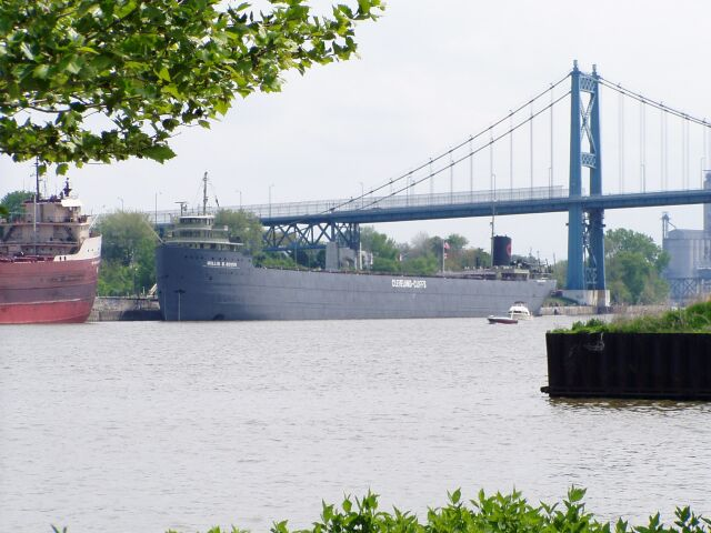 Willis B Boyer (Cleveland-Cliffs Line) and the Buckley